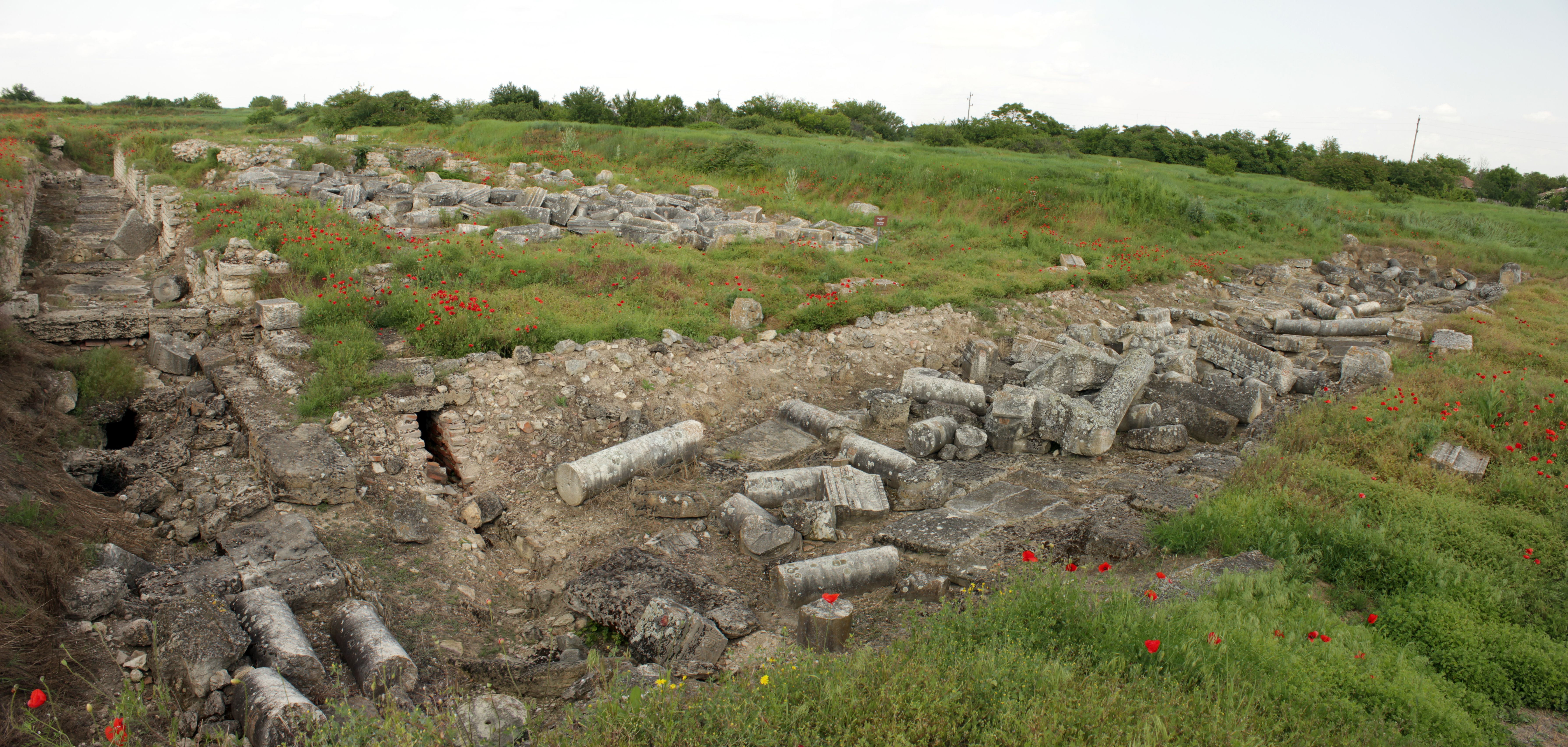 Part of Ulpia Oescus archeological site